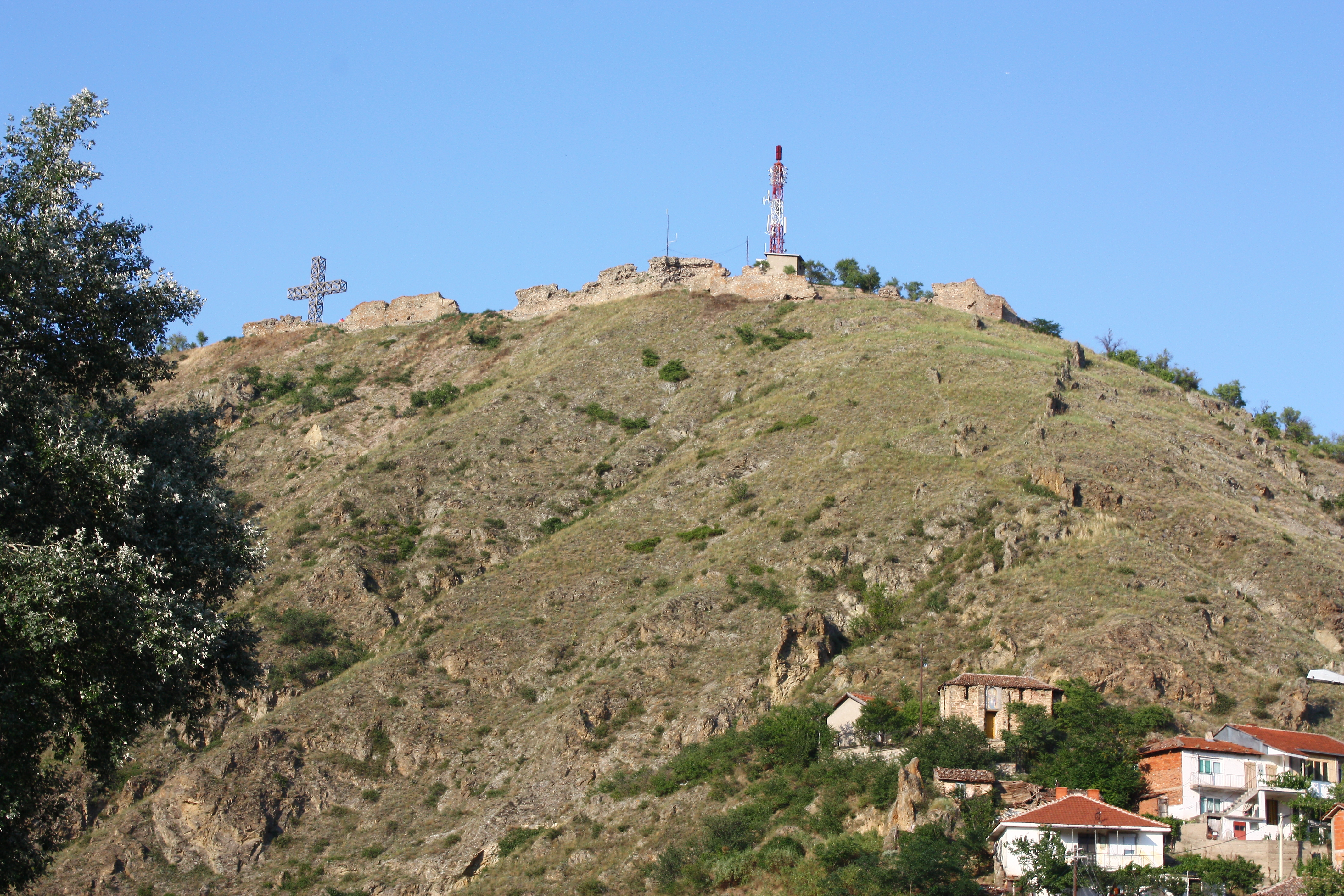 Isar Fortress in Štip, Macedonia